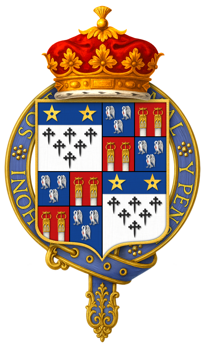 Shield of arms of Henry Pelham-Clinton, 5th Duke of Newcastle-under-Lyne, as displayed on his Order of the Garter stall plate in St. George's Chapel.